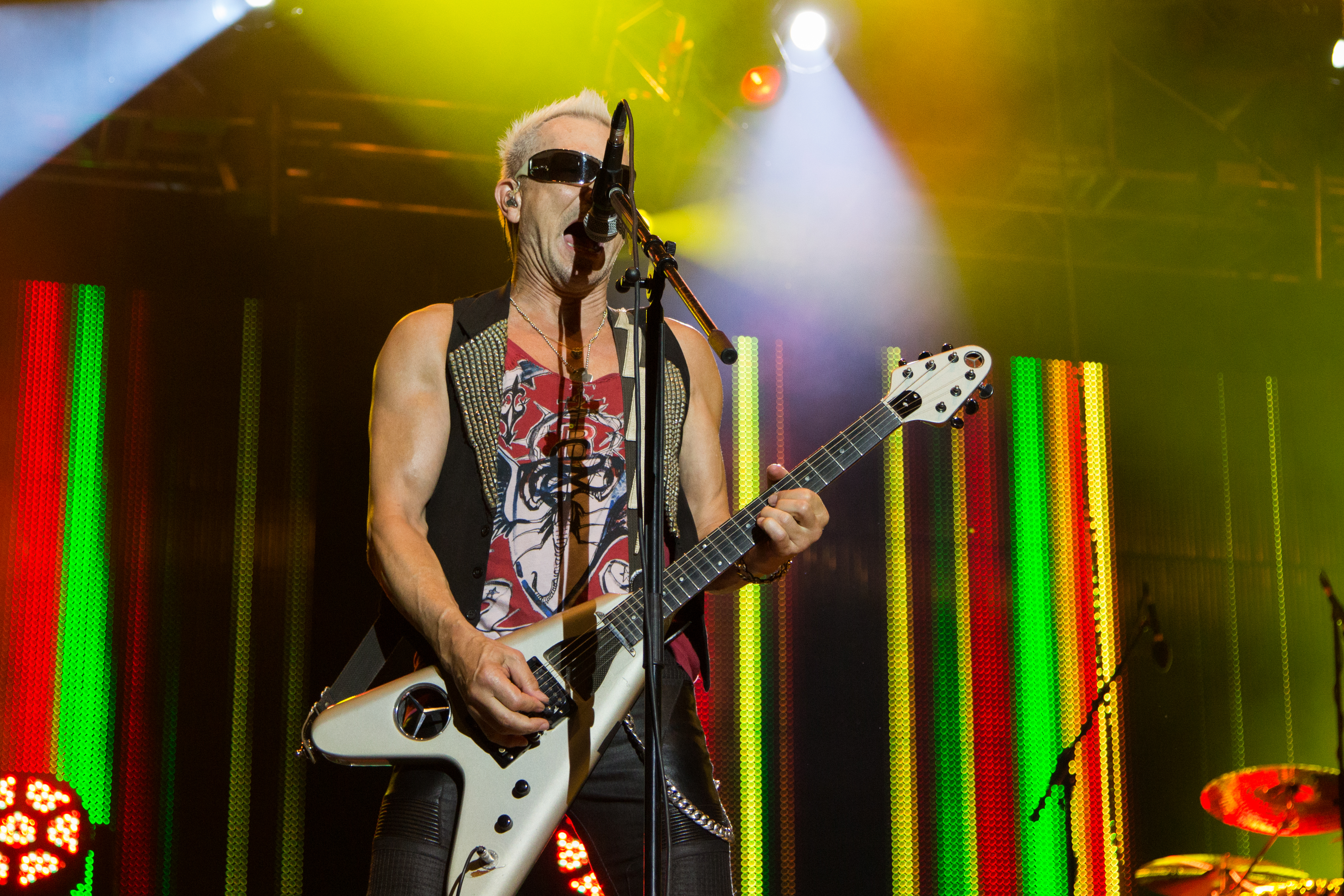 Rudolf Schenker from the Scorpions at the See-Rock Festival 2014